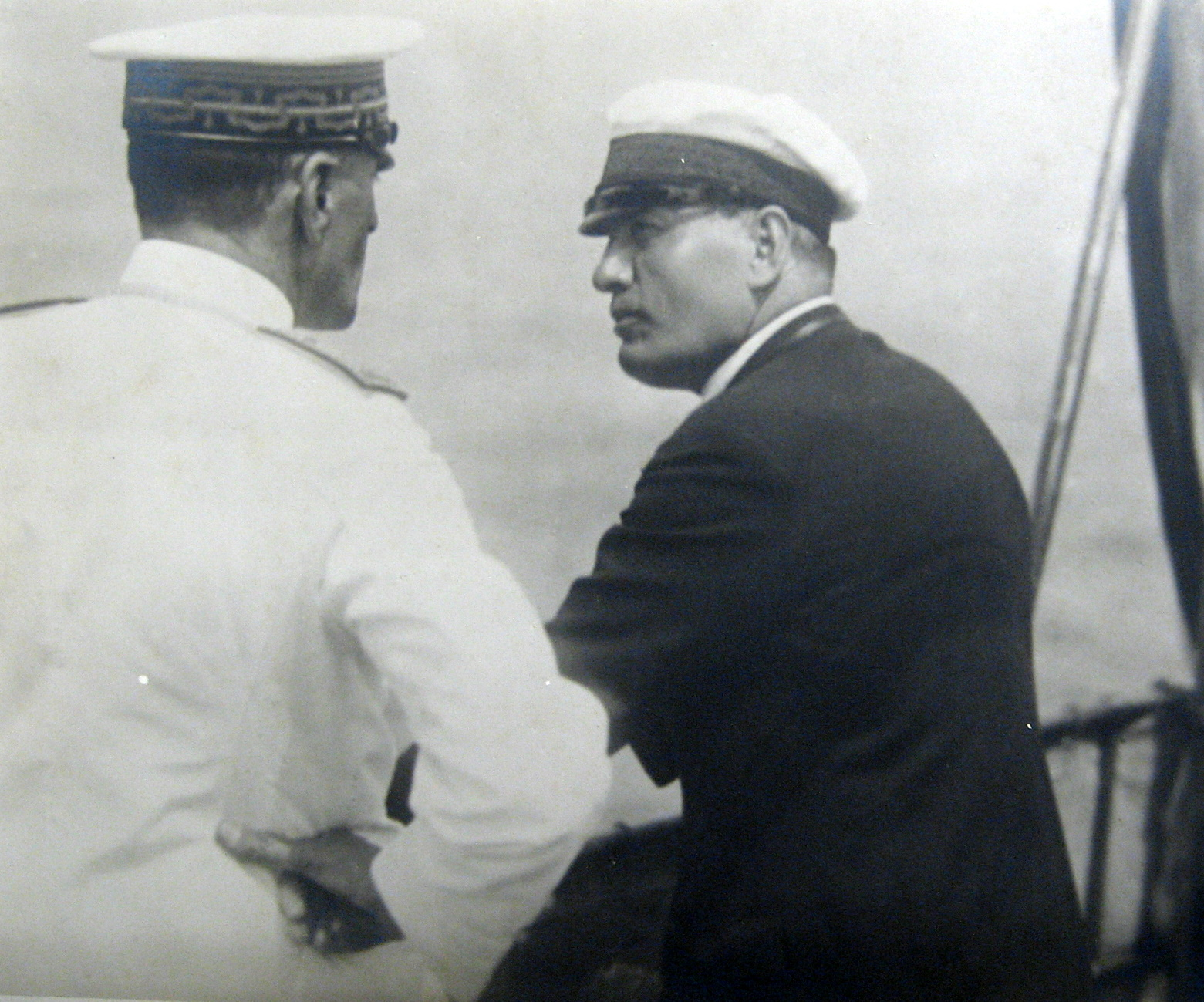 Benito Mussolini talks with Admiral Ernesto Burzagli (1873-1944) during the naval maneuvres in 1928. The original picture, scanned by Emiliano Burzagli, belongs to the Private archive of Burzaghi family, Italy.